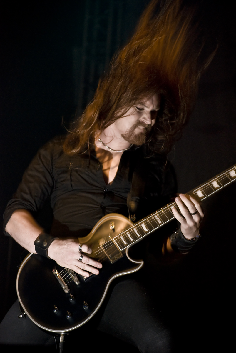 Azarak, live guitarrist of Satyricon.